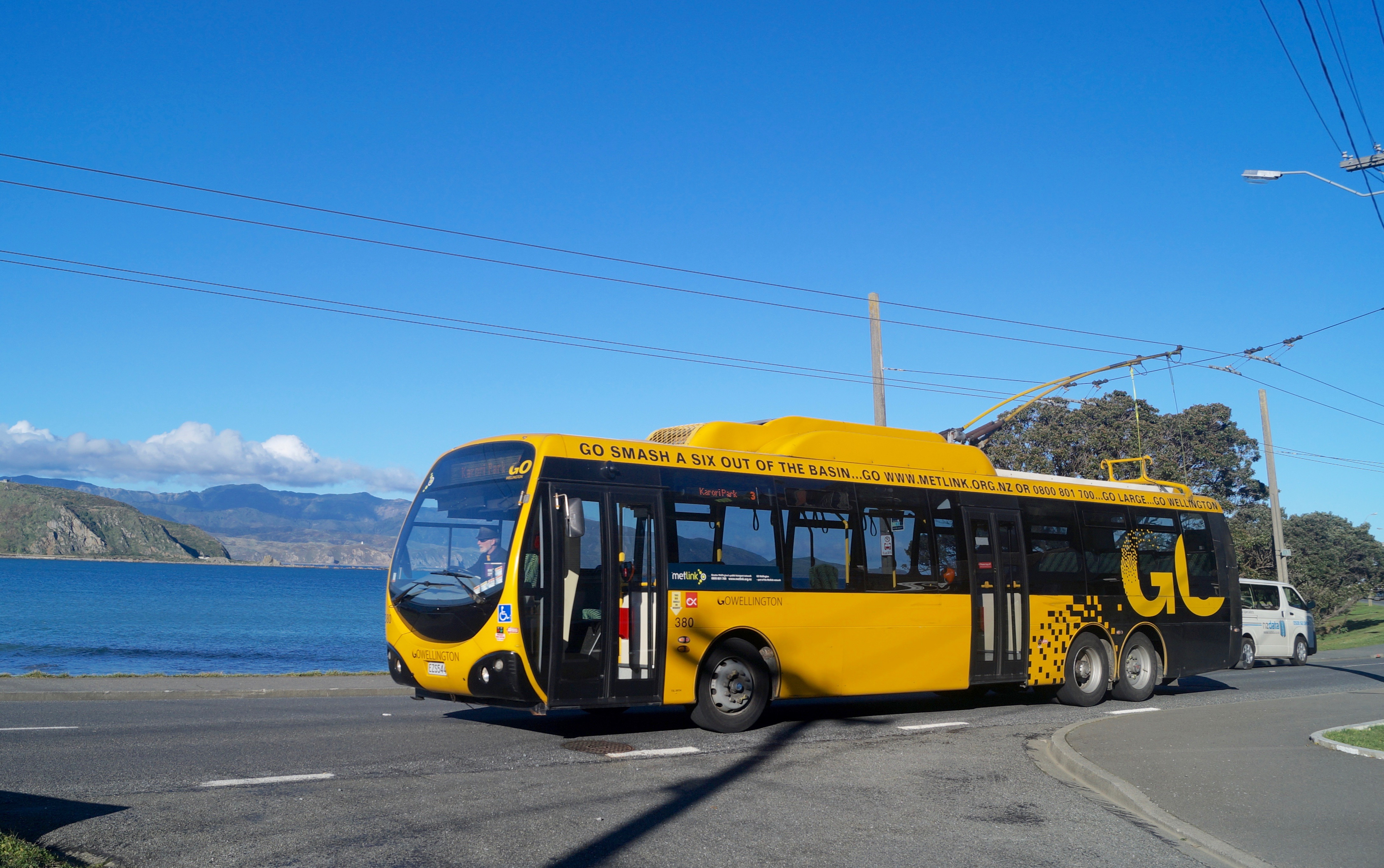 Wellington trolleybus 380 northbound on Queens Drive about 800 feet (240 m) south of the its intersection with Sutherland Road, with Lyall Bay in the background. No. 380 was built by DesignLine in 2009.